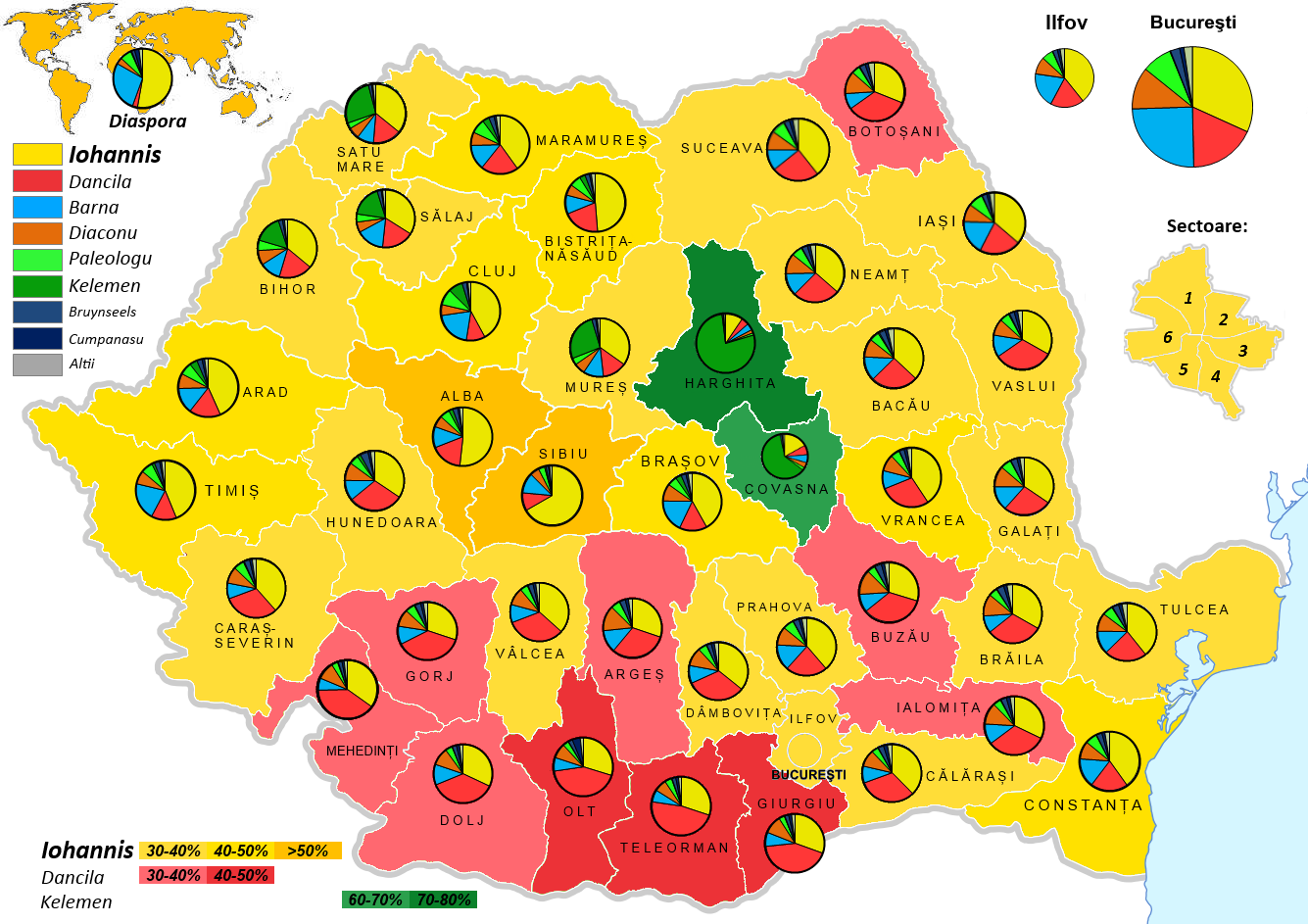 Romanian presidential elections 2019 results by counties